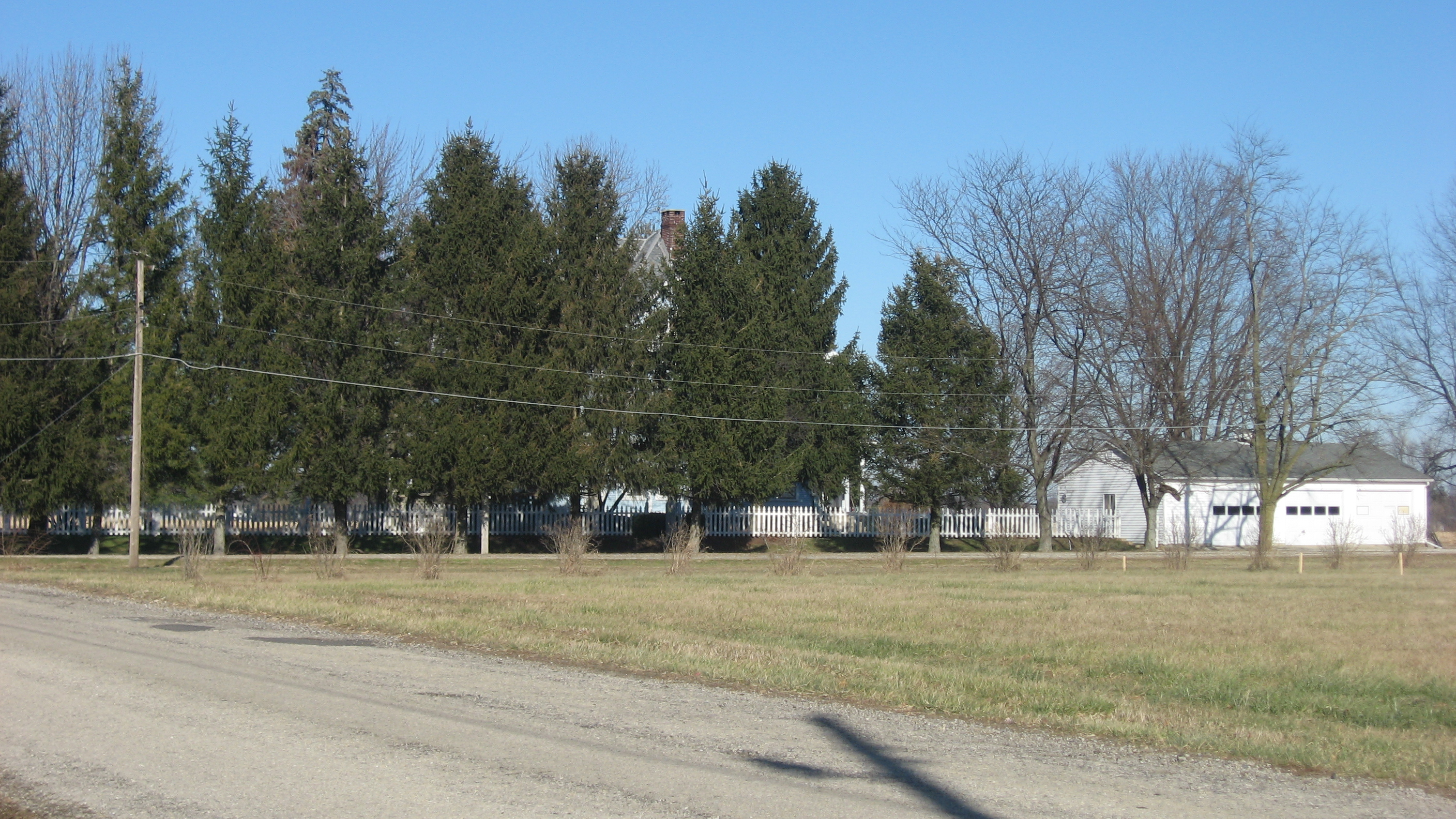 Distant view of buildings at the Martin Hofherr Farm, located on the eastern side of County Road 650W just north of Division Road, north of Yorktown in Mount Pleasant Township, Delaware County, Indiana, United States. The farm complex is listed on the National Register of Historic Places.